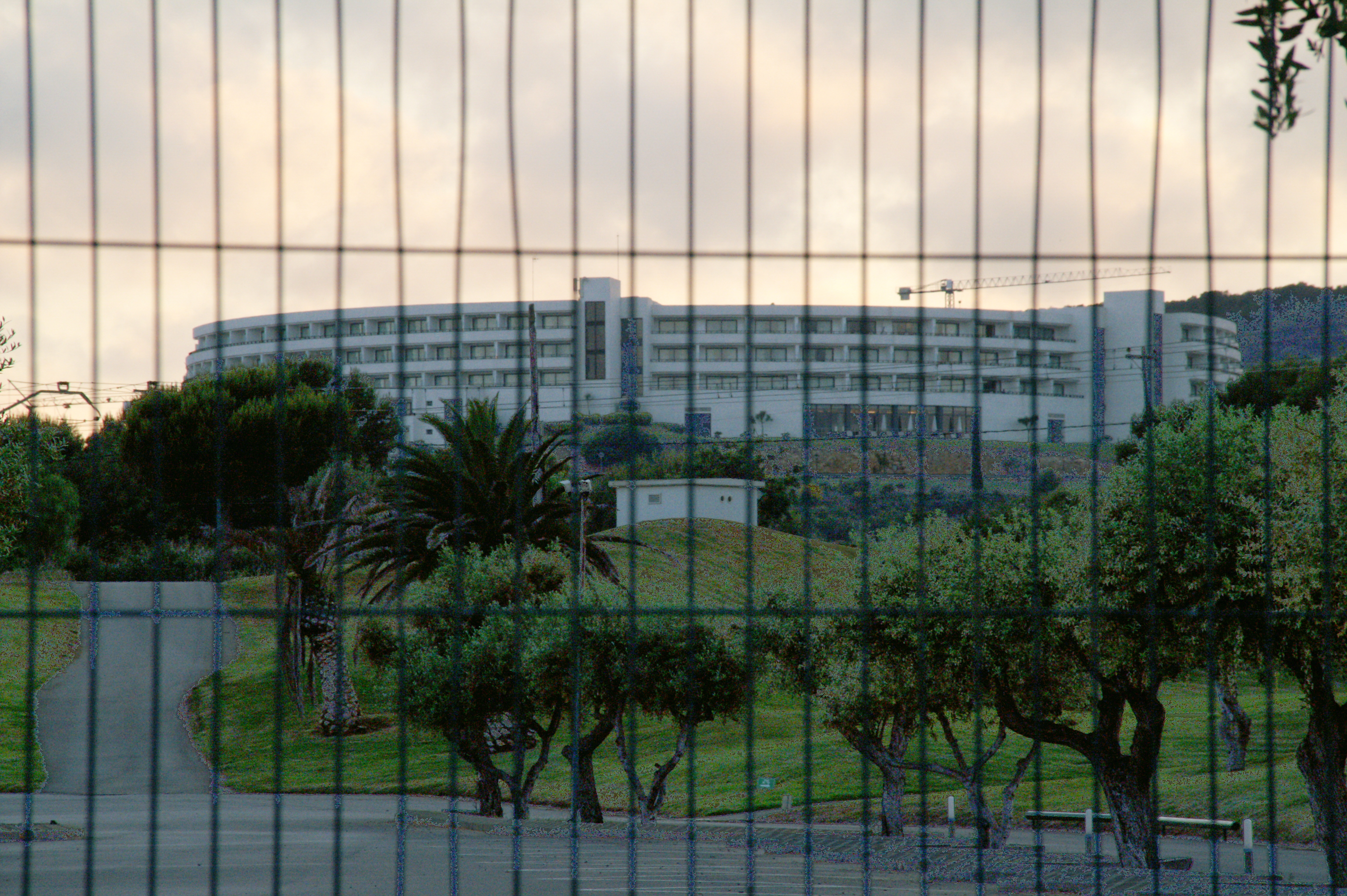 Hotel Dolce behind fence of golf course in Sitges, Spain. Home of Bilderberger Conference 2010.